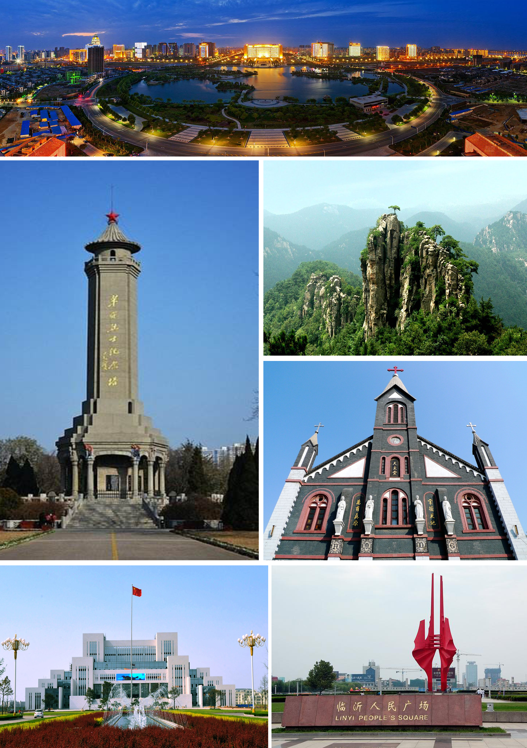 pictures about Linyi city